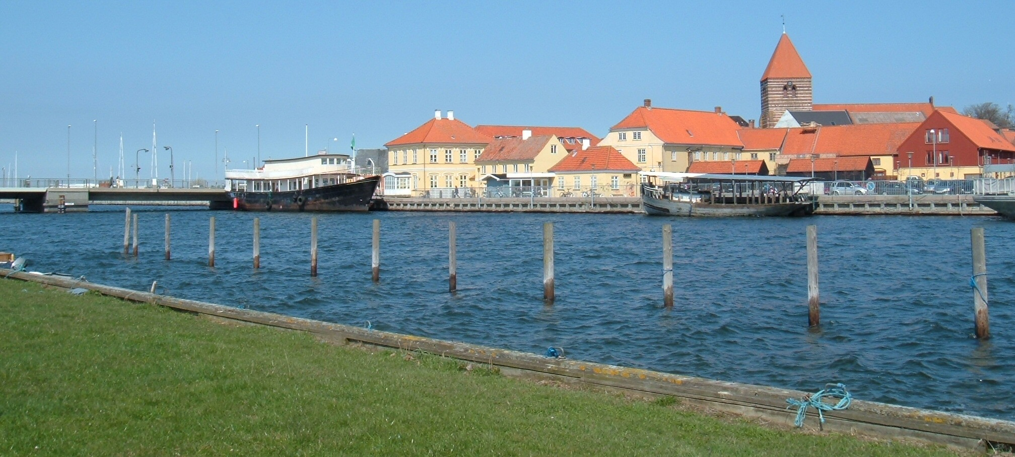 View of Stege, Møn, Denmark, showing view across Stege Nor towards the town. Taken by contributor spring 2006.